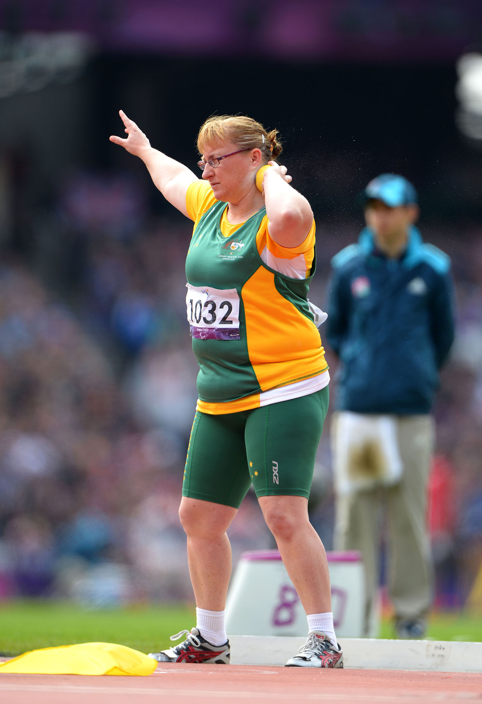 Photograph of Australian Paralympic team member Katherine Proudfoot at the 2012 Summer Paralympic Games in London